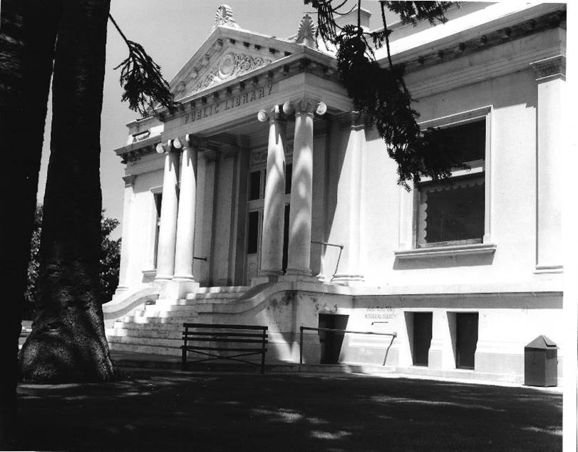 Santa Maria Public Library - a Carnegie Library built and opened in 1909 in Santa Maria, California